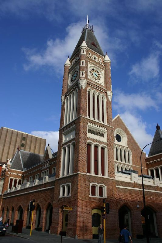 Perth Town Hall